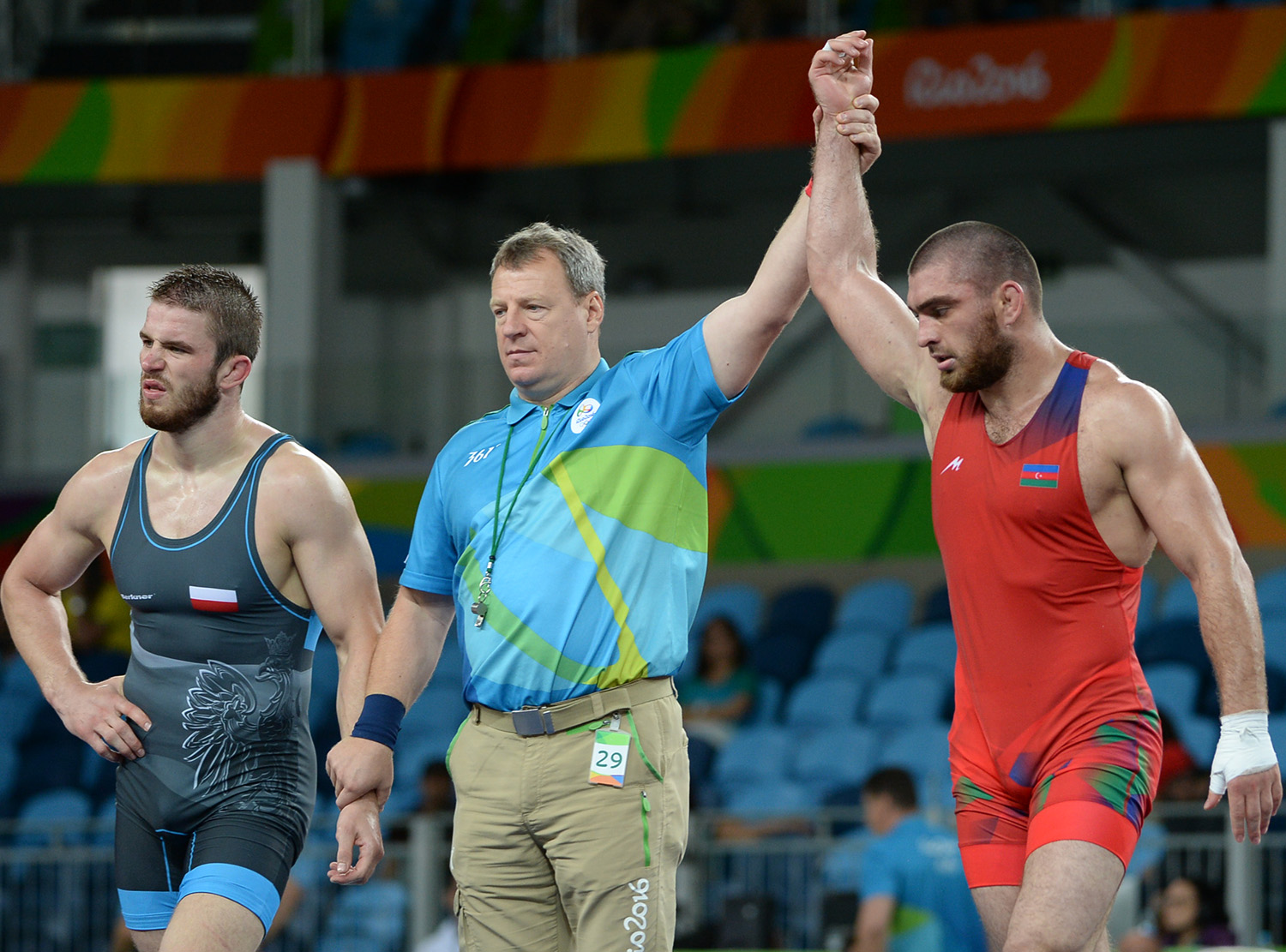 Wrestling at the 2016 Summer Olympics, Sharifov vs Baranowski